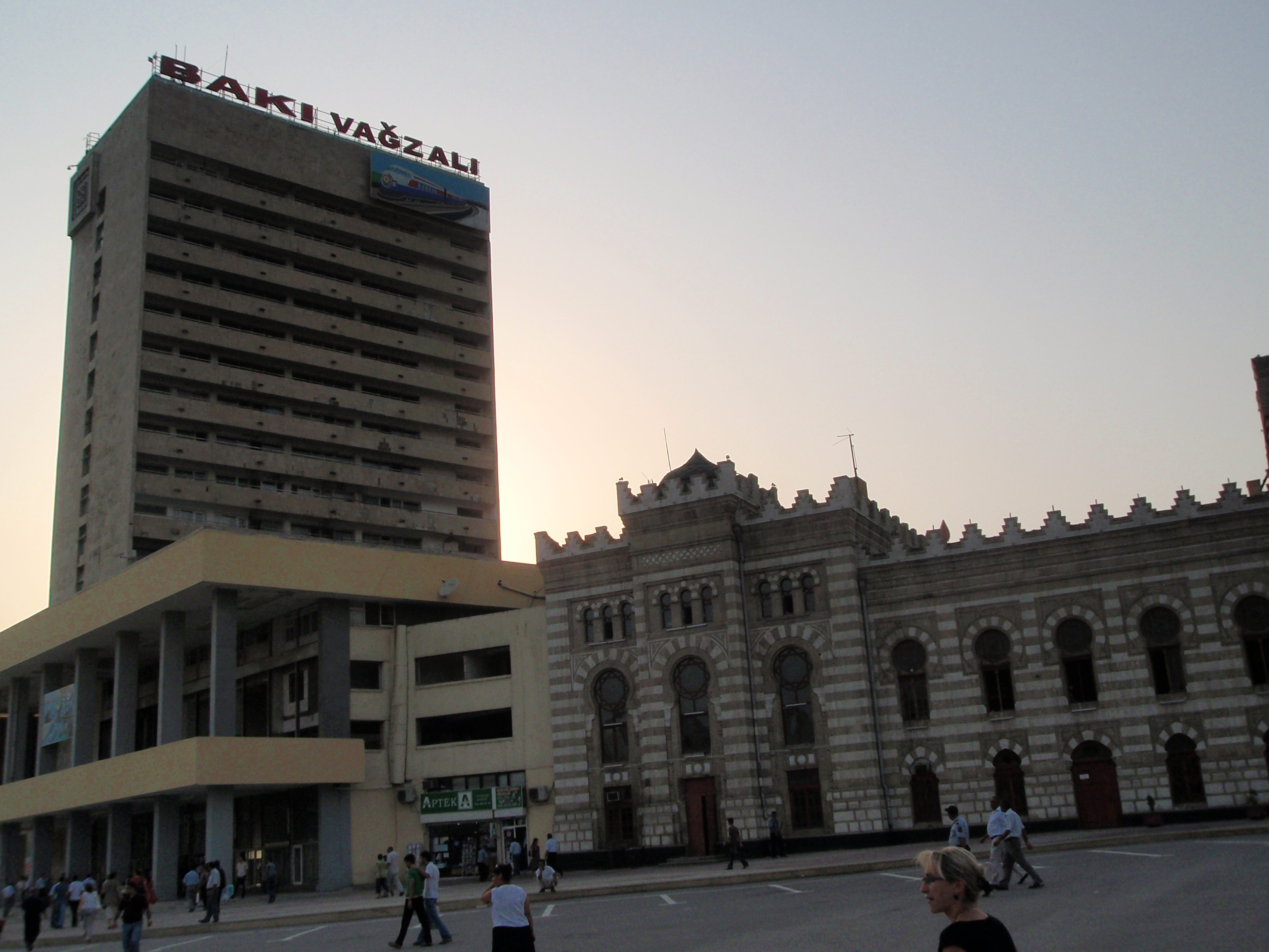 Railway station in Baku